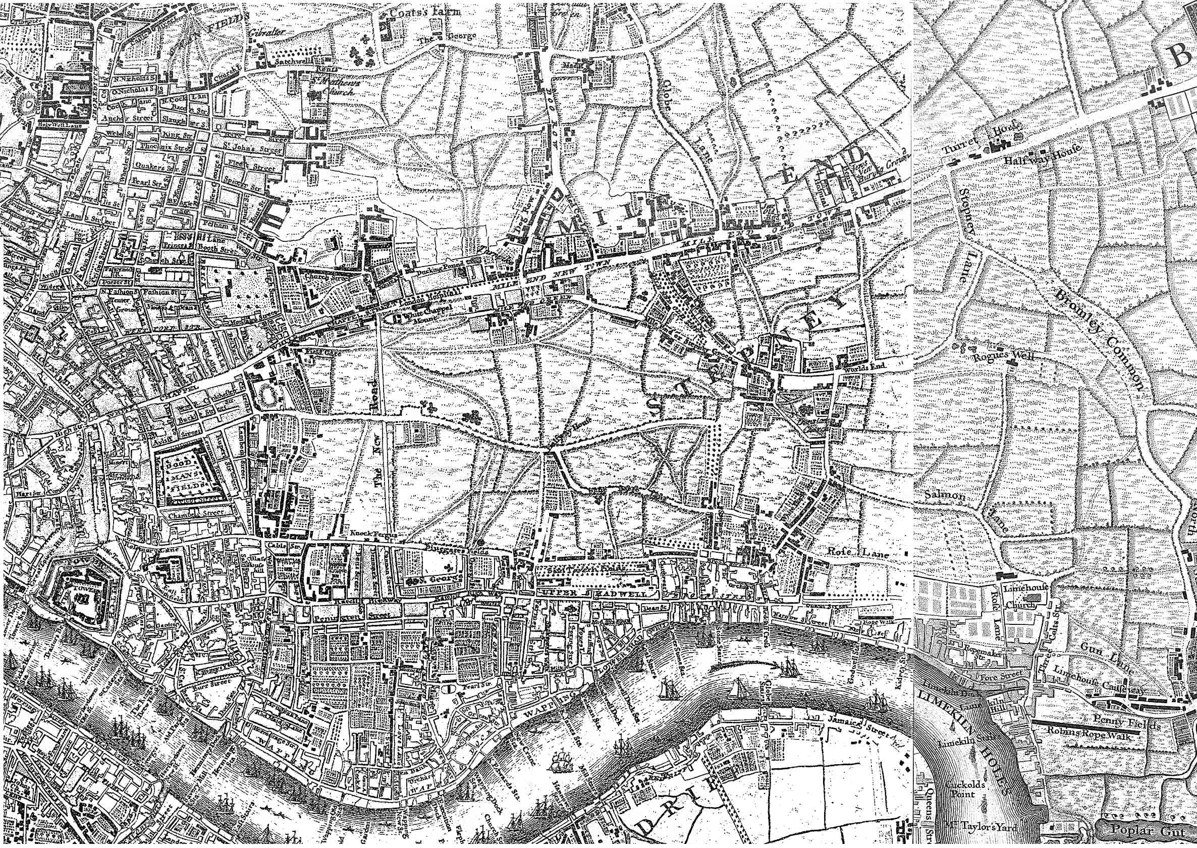 1745 Roque Historic map of the East End. Source Birkbeck History Dept., but not on web.